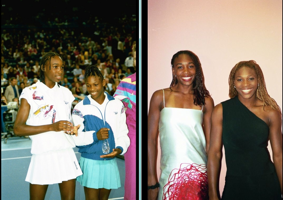 Pam Shriver event Baltimore on left ....Wash D.C. Charity on right Copyright John Mathew Smith 2001